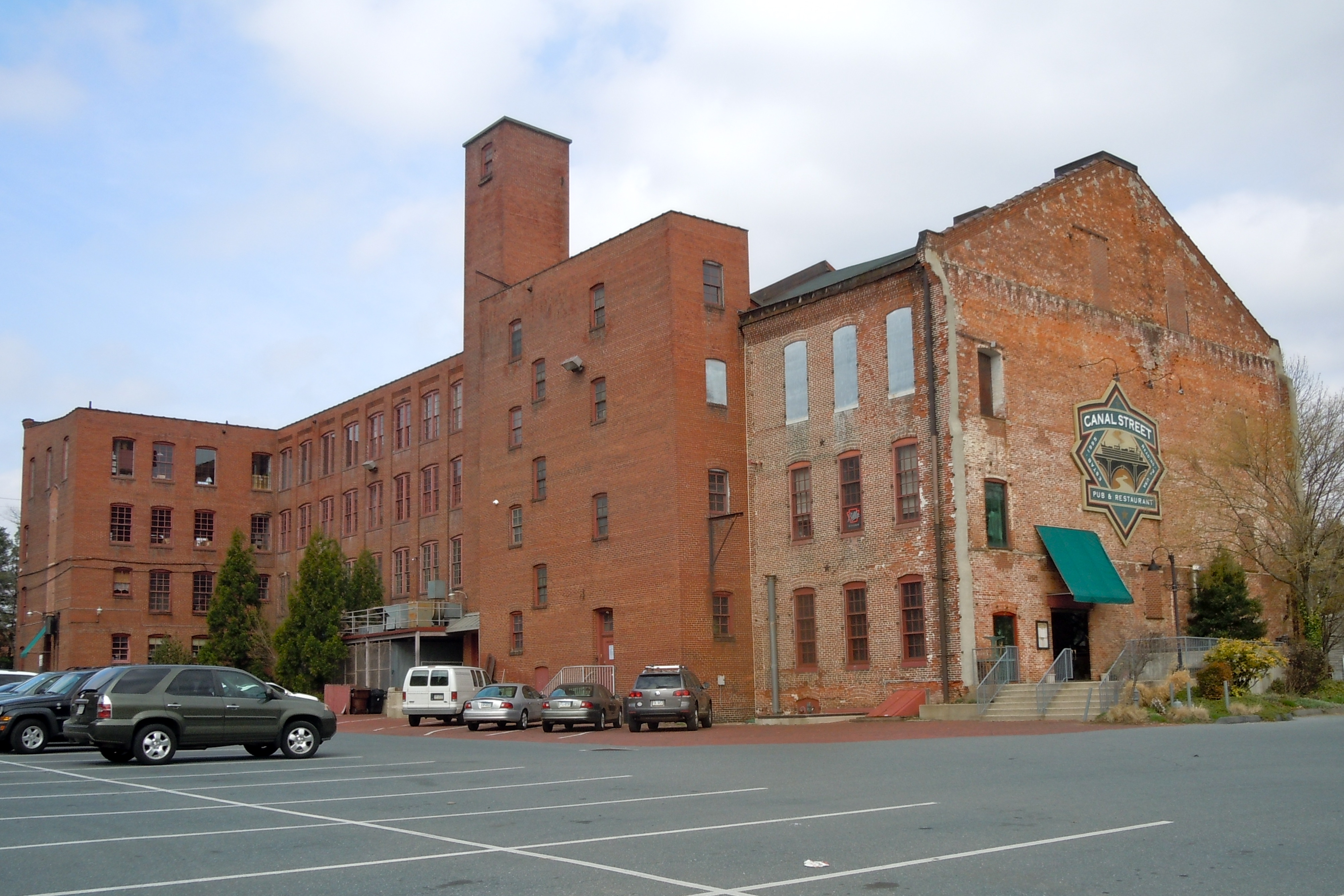 Reading Hardware Company historical district on the NRHP since June 13, 1997. The HD is roughly bounded by Willow, South 6th, and Canal Streets, and alleyway, in Reading, Berks County, Pennsylvania